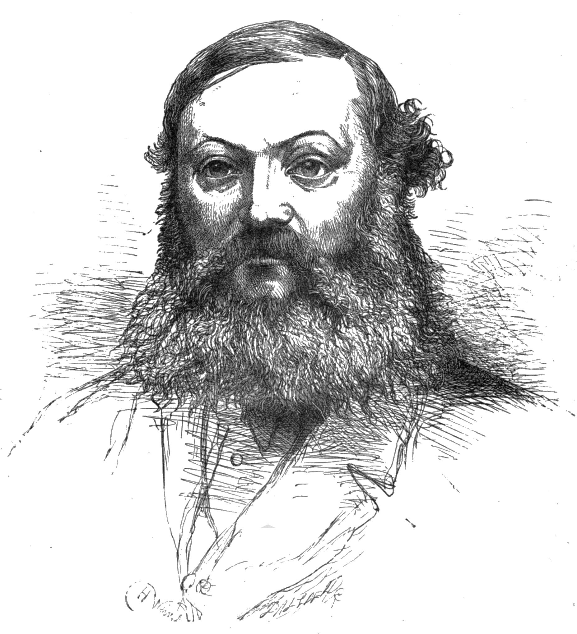 Author:Mark Antony Lower